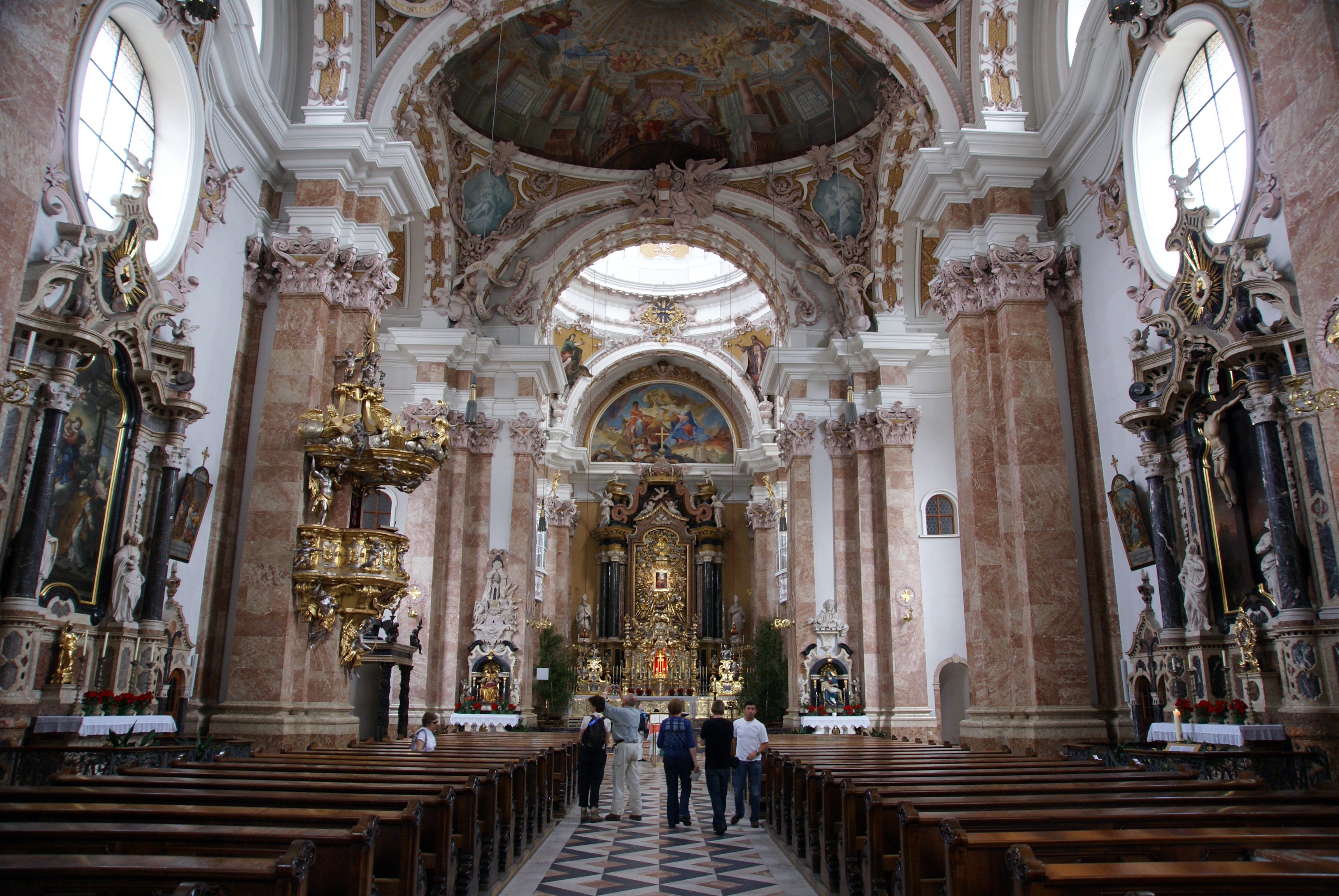 Cathedral of St. James in Innsbruck, Austria